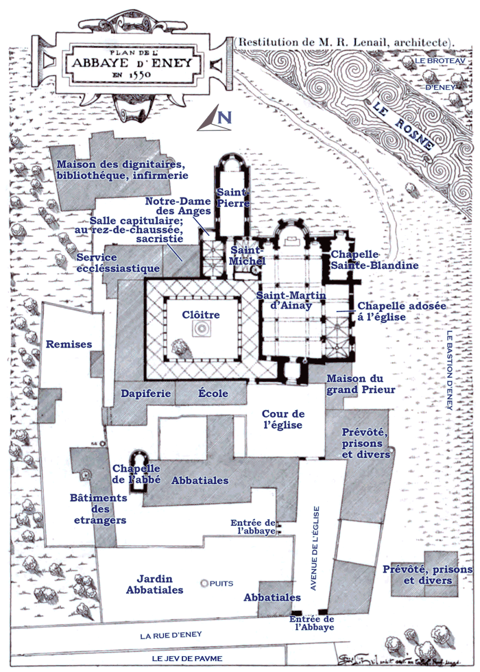 Un plan de l'Abbaye d'Ainay créé par Rogatien Lenail en 1908 pour le livre "Histoire des églises et chapelles de Lyon." Publiée avec la collaboration de J. Armand-Caillat [et al.] Introd. par Mgr. Dadolle et J.B. Vanel (1908). Les annotations ont été ajoutées par moi-même en fonction de la clé d'origine.